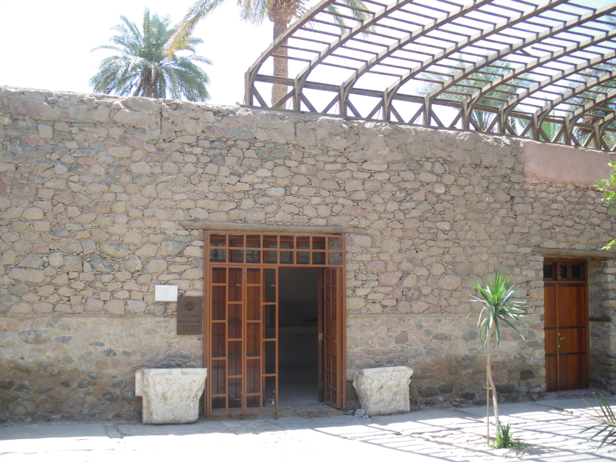 entrance of the Aqaba Archeological Museum